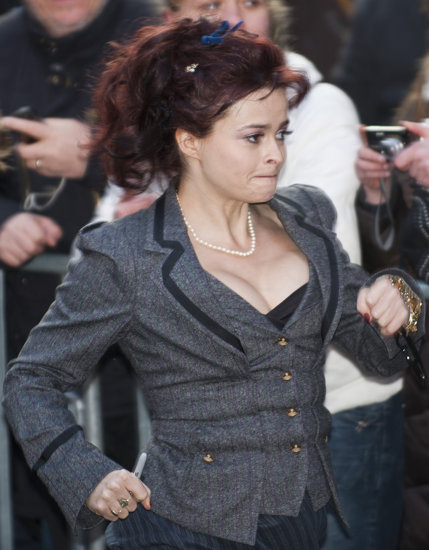 Helena Bonham Carter at the press conference of "Toast".